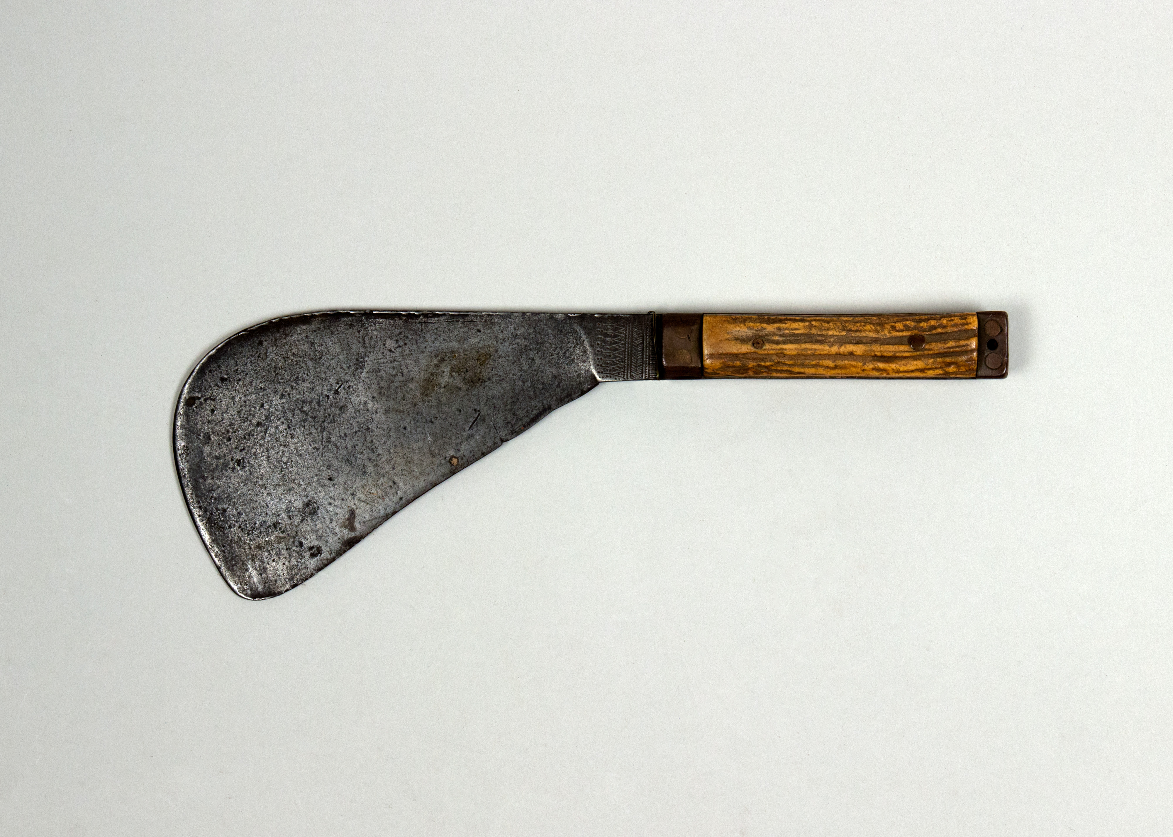 TitleSword (Ayda Katti)Object typeSwordsDate19th centuryMediumSteel, brass, horn (stag)DimensionsL. 13 1/8 in. (33.3 cm); W. 1 in. (2.5 cm); Wt. 1 lb. 5.3 oz. (603.8 g)Current location Metropolitan Museum of Art Native nameMetropolitan Museum of ArtLocationManhattan, New York City, United States of AmericaCoordinates40° 46′ 44.08″ N, 73° 57′ 49.21″ W Established1870Web page control : Q160236 VIAF: 126238294 ISNI: 0000 0001 2097 3481 ULAN: 500125157 LCCN: n79129629 NLA: 36247933 WorldCat Arms and ArmorAccession number36.25.1572Place of discoveryIndian, CoorgCredit lineBequest of George C. Stone, 1935Source/Photographer This file was donated to Wikimedia Commons by as part of a project by the Metropolitan Museum of Art. See the Image and Data Resources Open Access Policy Permission (Reusing this file) This file is made available under the Creative Commons CC0 1.0 Universal Public Domain Dedication.The person who associated a work with this deed has dedicated the work to the public domain by waiving all of his or her rights to the work worldwide under copyright law, including all related and neighboring rights, to the extent allowed by law. You can copy, modify, distribute and perform the work, even for commercial purposes, all without asking permission.